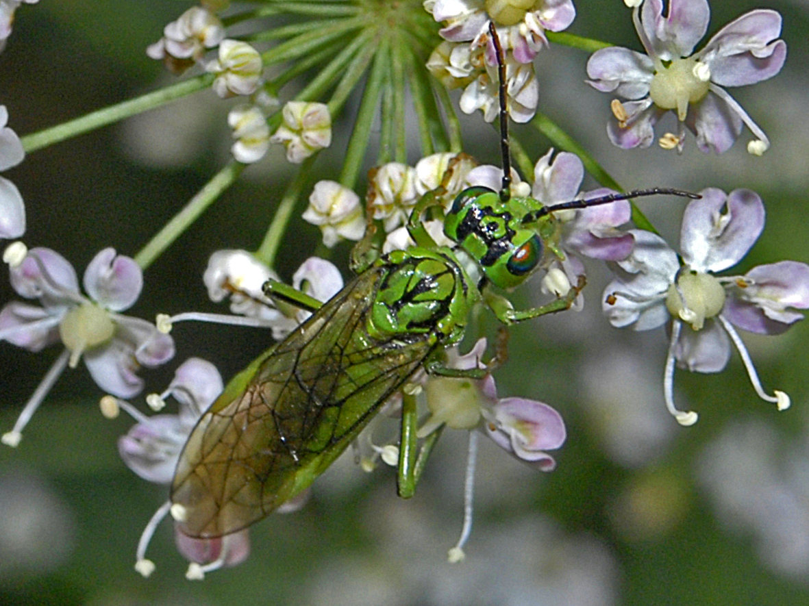 Tenthredo (Olivacedo) olivacea. La Thuile, Aosta, Italy